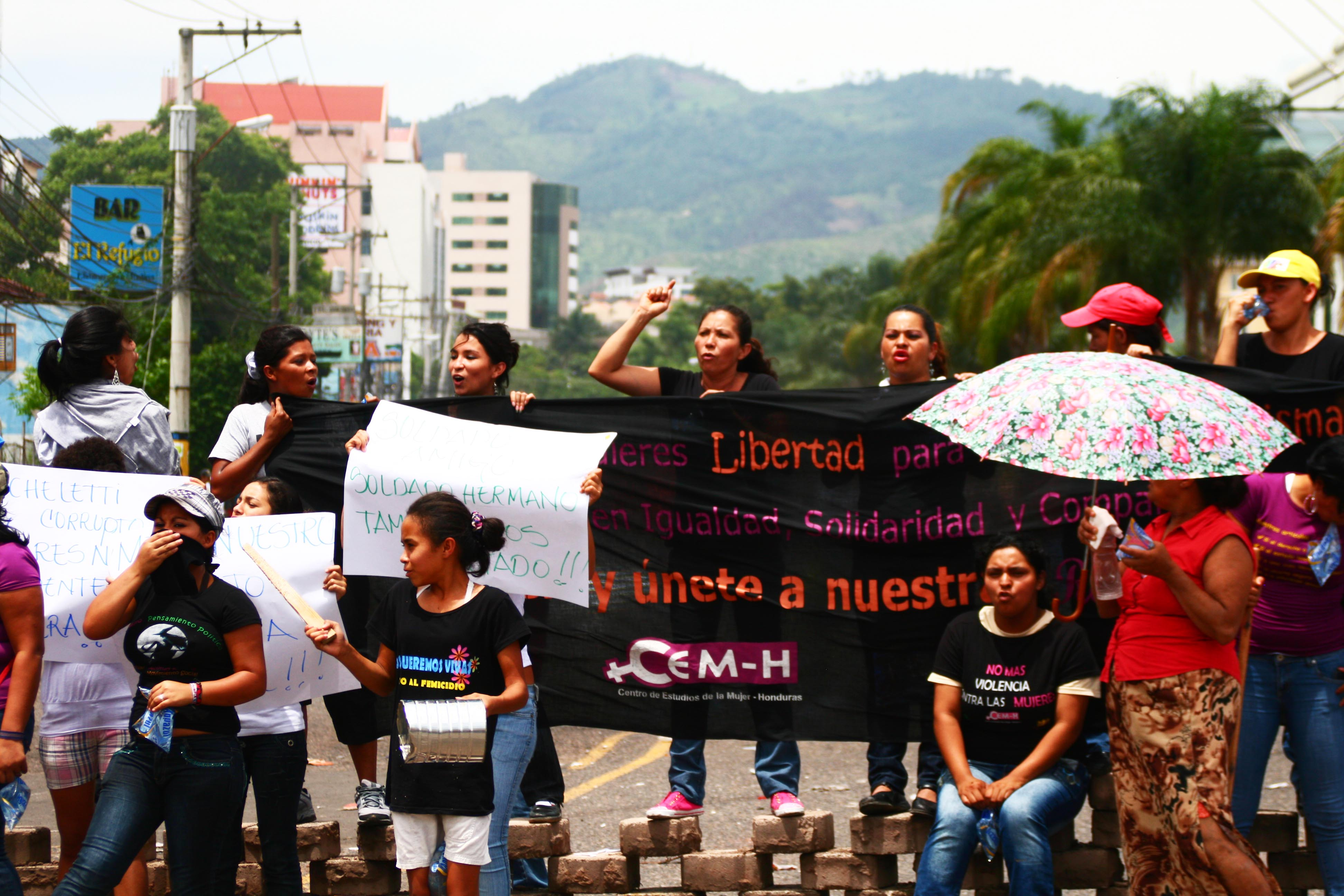 2009 Honduran coup d'état